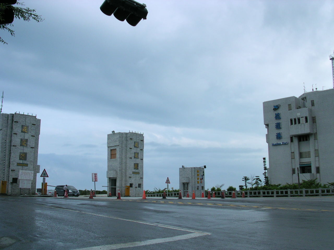 Showing the entrance of HuaLien Port. This photo taken by vegafish.